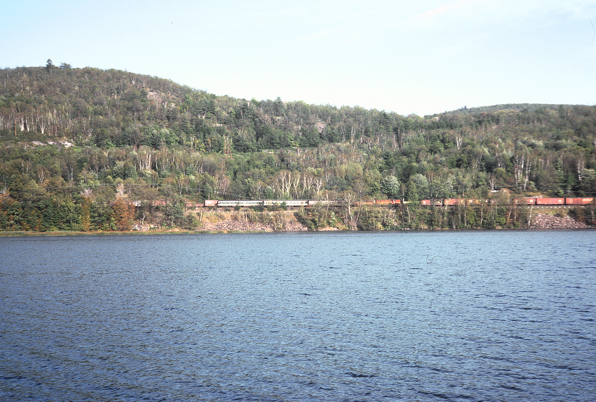 The southbound Ambassador passes a freight train north of Bellows Falls, Vermont in September 1965